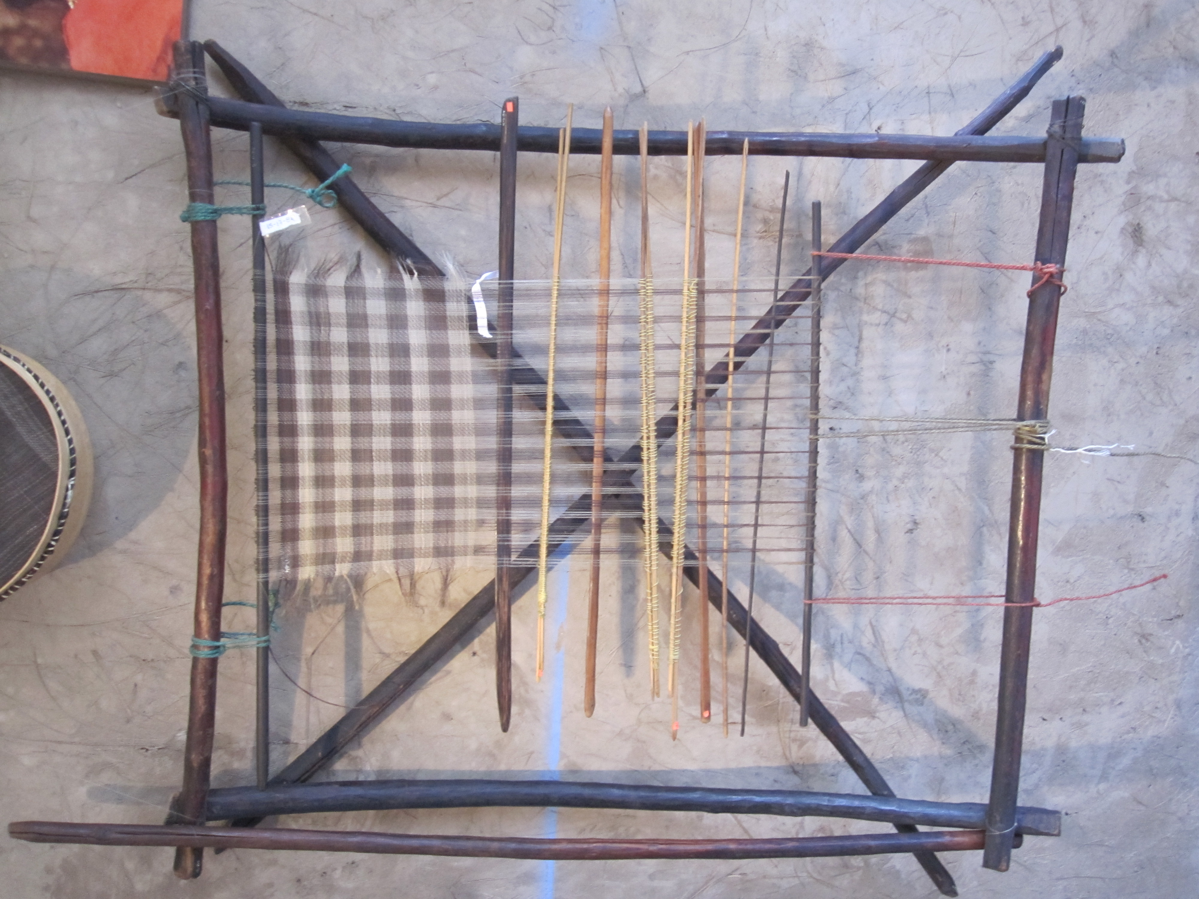 Weaving from Pichincha province